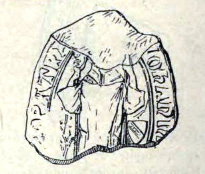 John, Latin archbishop and baron of Patras (1295-1306)